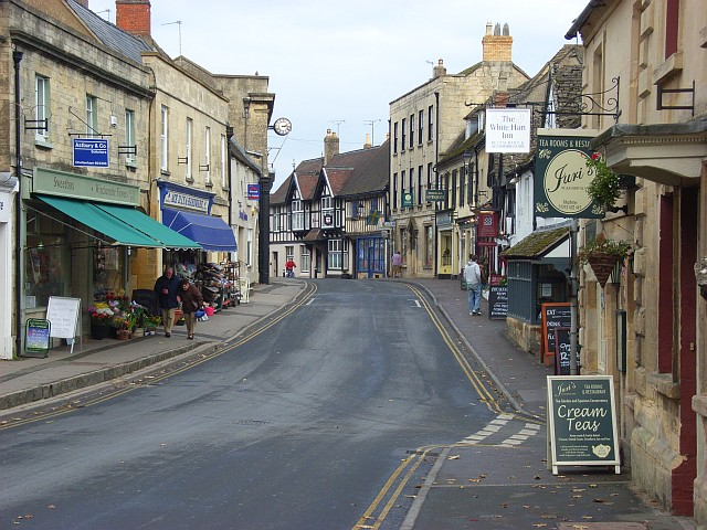 The site of the old castle in Winchcombe, by Andrew Smith